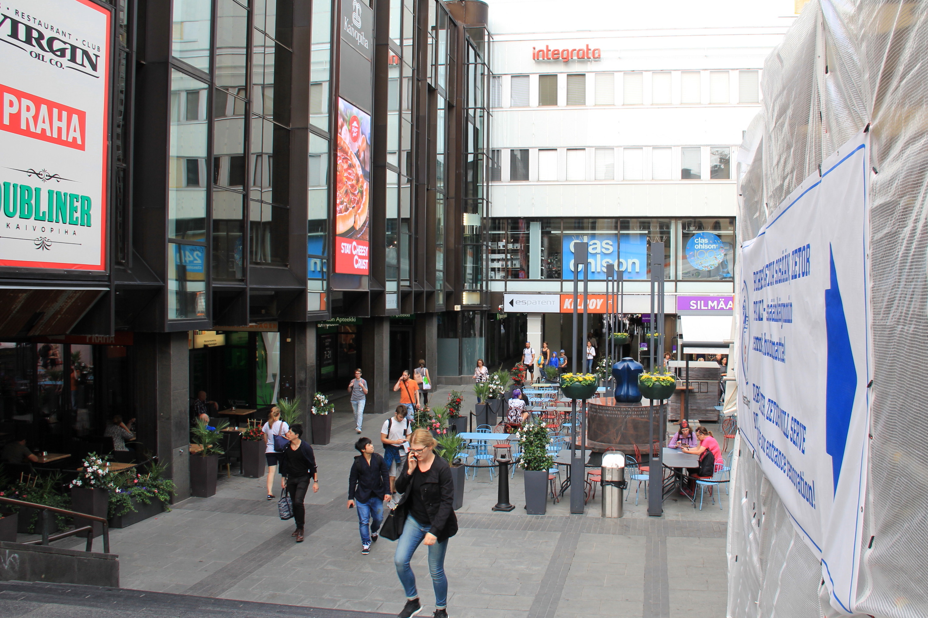 Kaivopiha shopping mall, Helsinki, Finland. - Inner yard with Hansatalo building (left) and Kaivotalo-building (center). Blue statue is Björn Weckström's (b. 1935) Yhdessä ("Together"), unveiled in 2018.